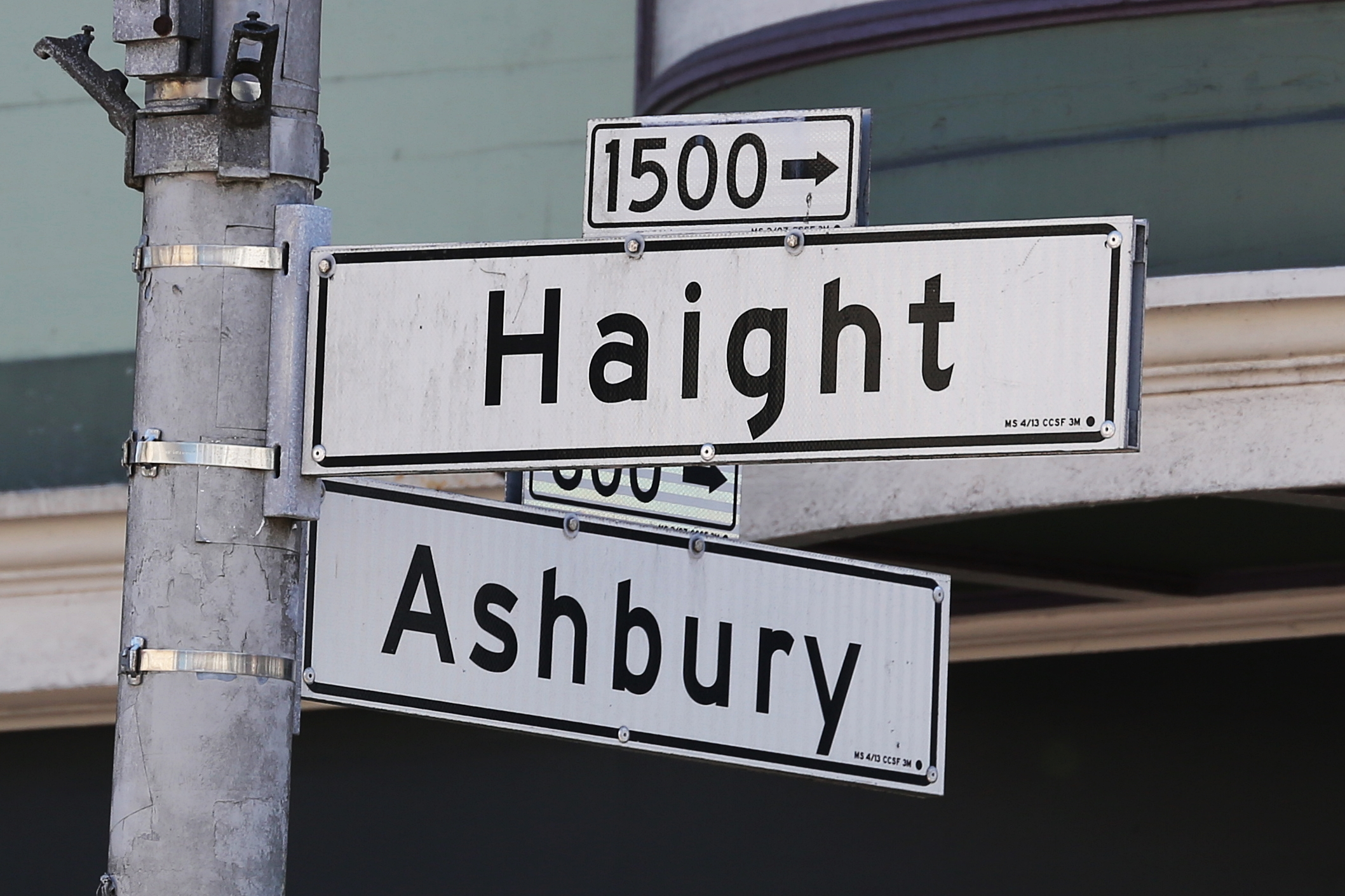 Haight-Ashbury signs (San Francisco) (TK3)